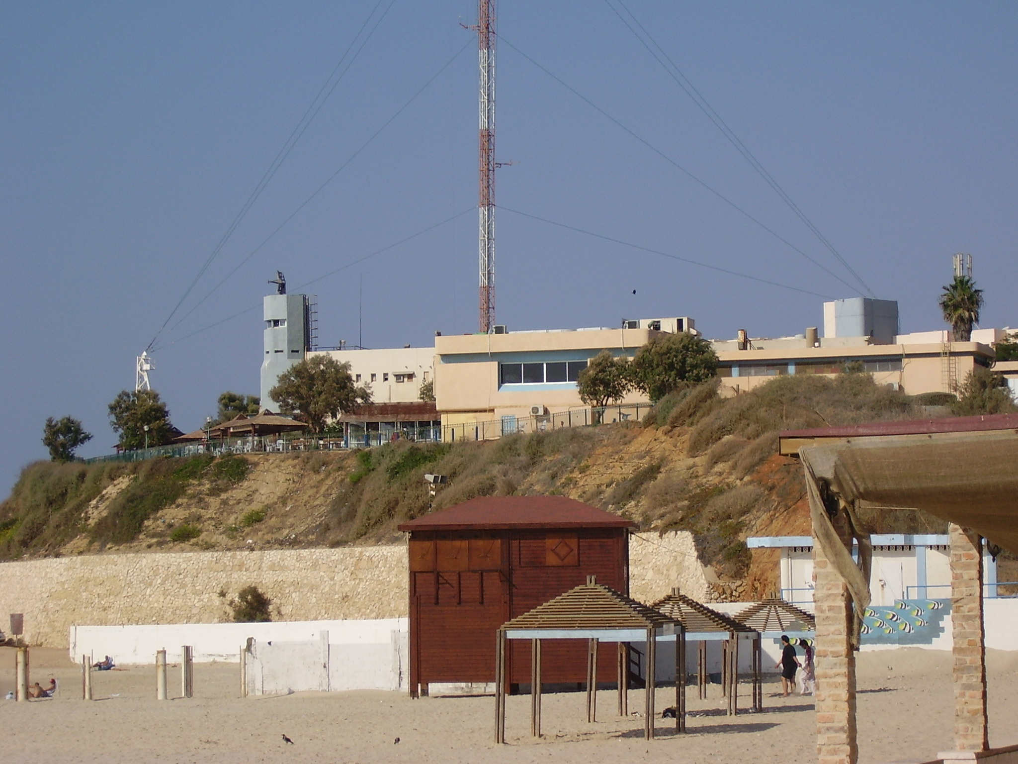 building of the mandatory british coast guard station, givat- olga, israel